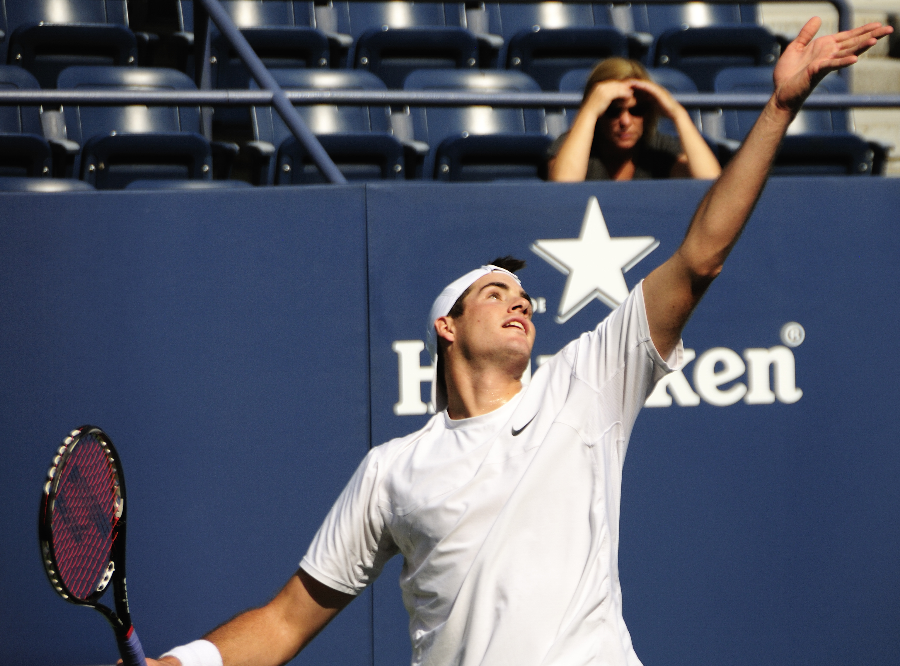 John Isner at the 2009 US Open